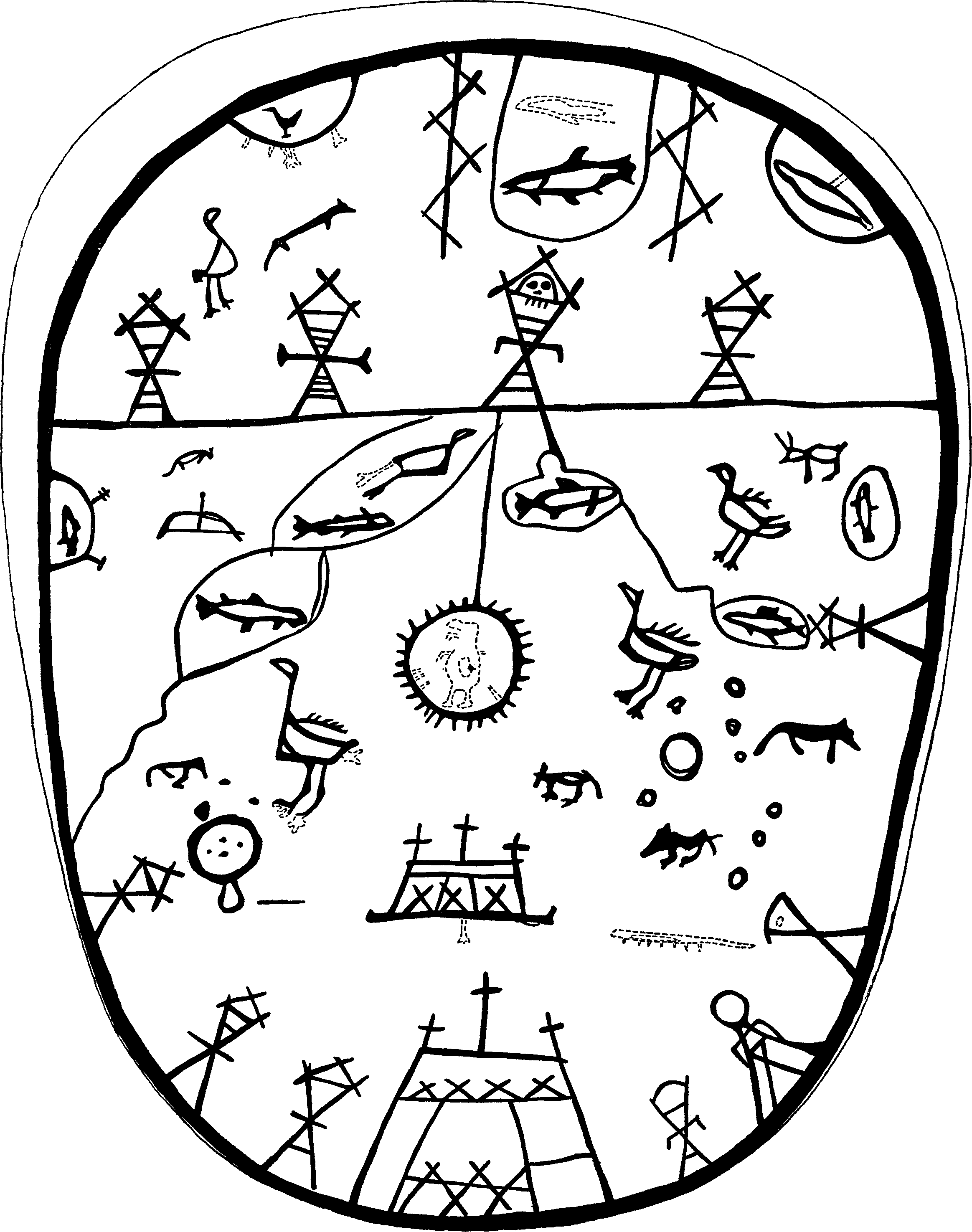 Sami drum, probably from Lule Lappmark, Sweden. Bowl drum. 49 x 39 cm. No 63 in Ernst Manker's Die lappische Zaubertrommel (1938/1950). At Museum für Völkerkunde, Dresden and its forerunners since 1684 or earlier. Donated to the king of Sachsen Johan Georg II 1668 by the duke of Holstein, Kristian Albrekt, brother of swedish queen Hedvig Eleonora. Motives include game birds, fur animals and fish; this reflects an owner that were probably not reindeer herding, but rather found his living in hunting and fishing. This according to Manker 1938